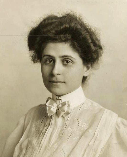 photo of Caroline Katzenstein